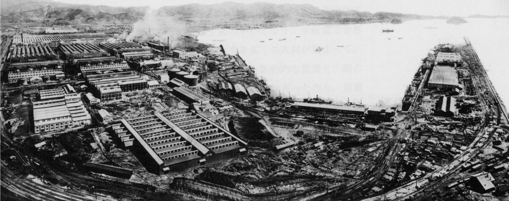 Chosen Chisso Hiryo K.K. konan(hungnam) works